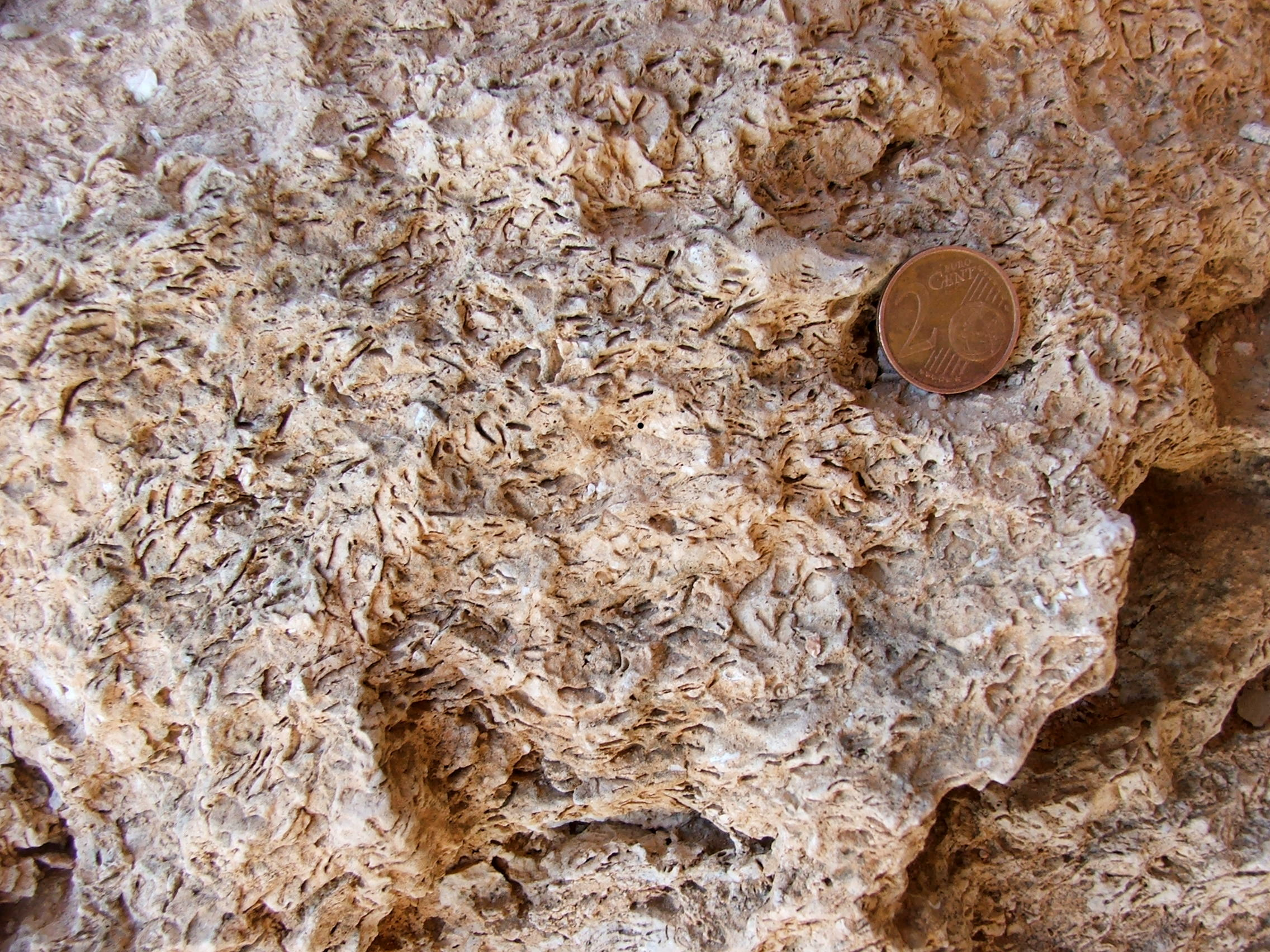 From capping reef deposits of the Tabernas basin, Spain.